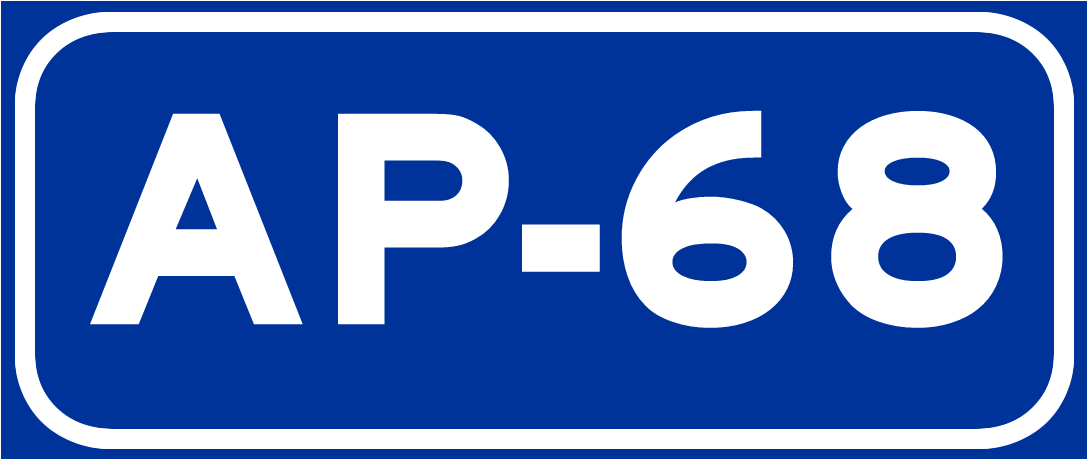 Diagram of motorway sign of Spain